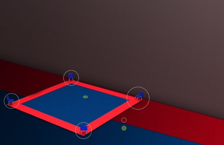 taekwondo